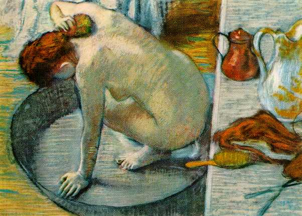 Le tub